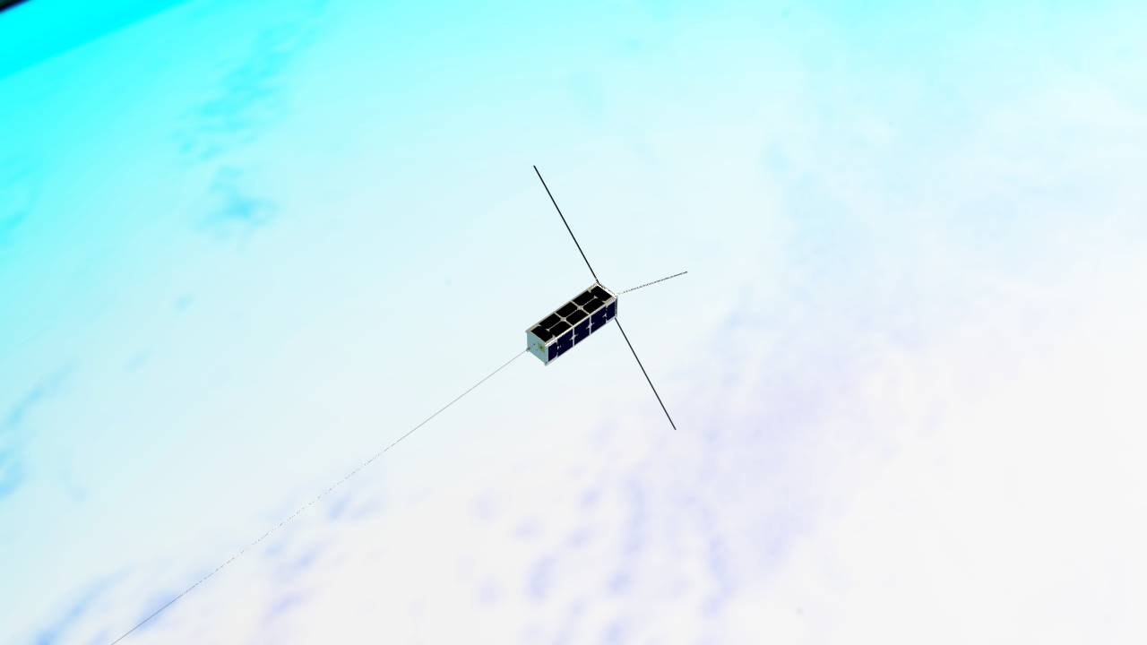 Aalto-1 student nanosatellite releasing the 100m long plasma brake tether